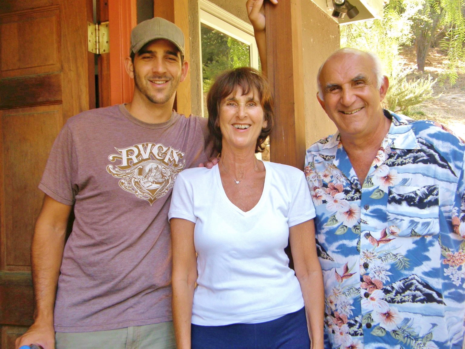 The image belongs to the Tile Heritage Foundation. Credit line: Courtesy Tile Heritage Foundation. Photographer Joseph A. Taylor. Taylor has given permission to use this photo in the Malibu tile article and to put the picture into the public domain.